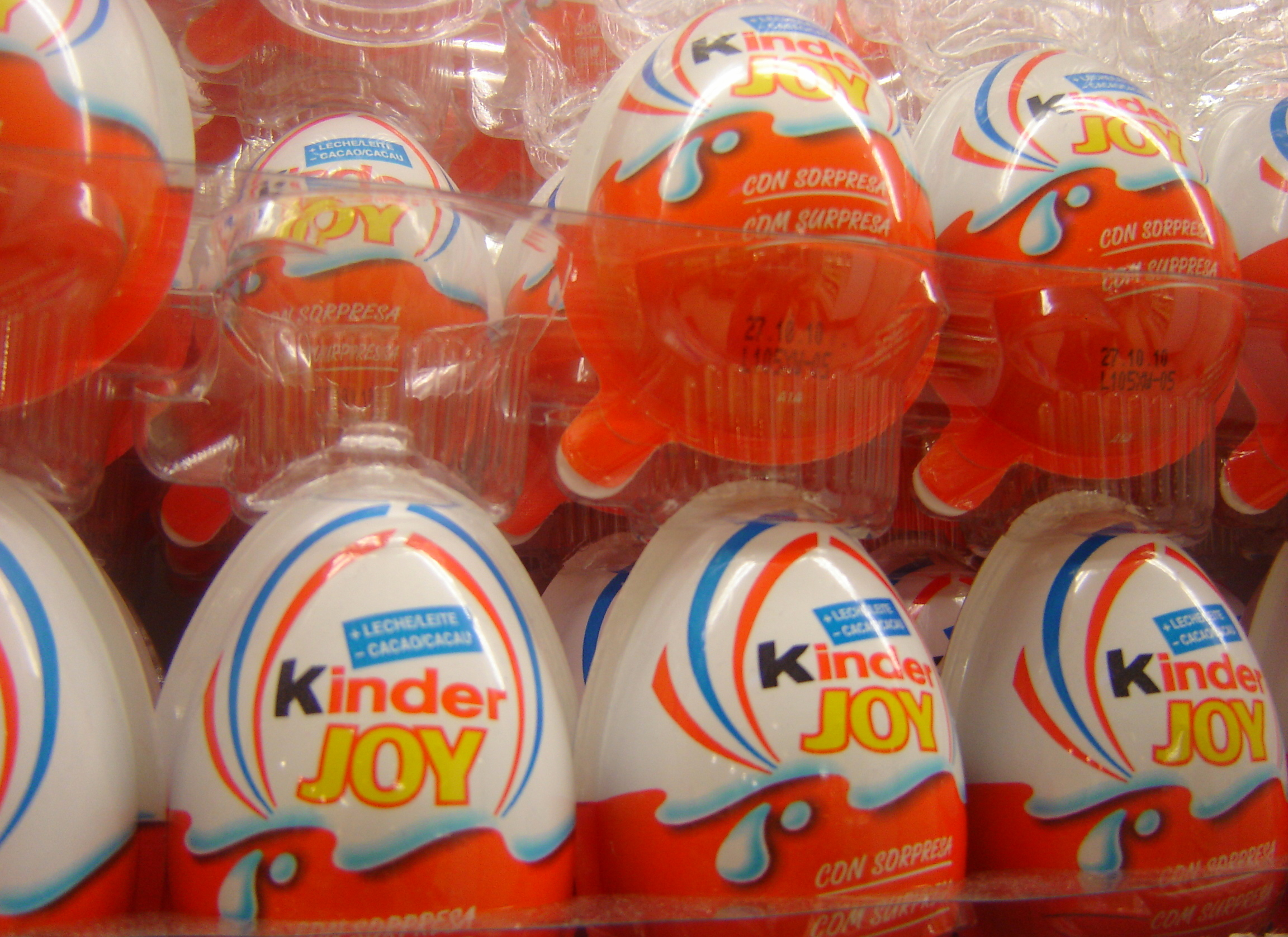 Kinder Joy in retail packaging for display on store shelves